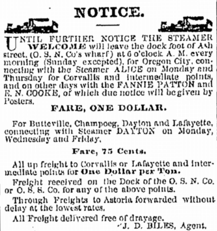 Welcome steamer (and other steamers) advertisement